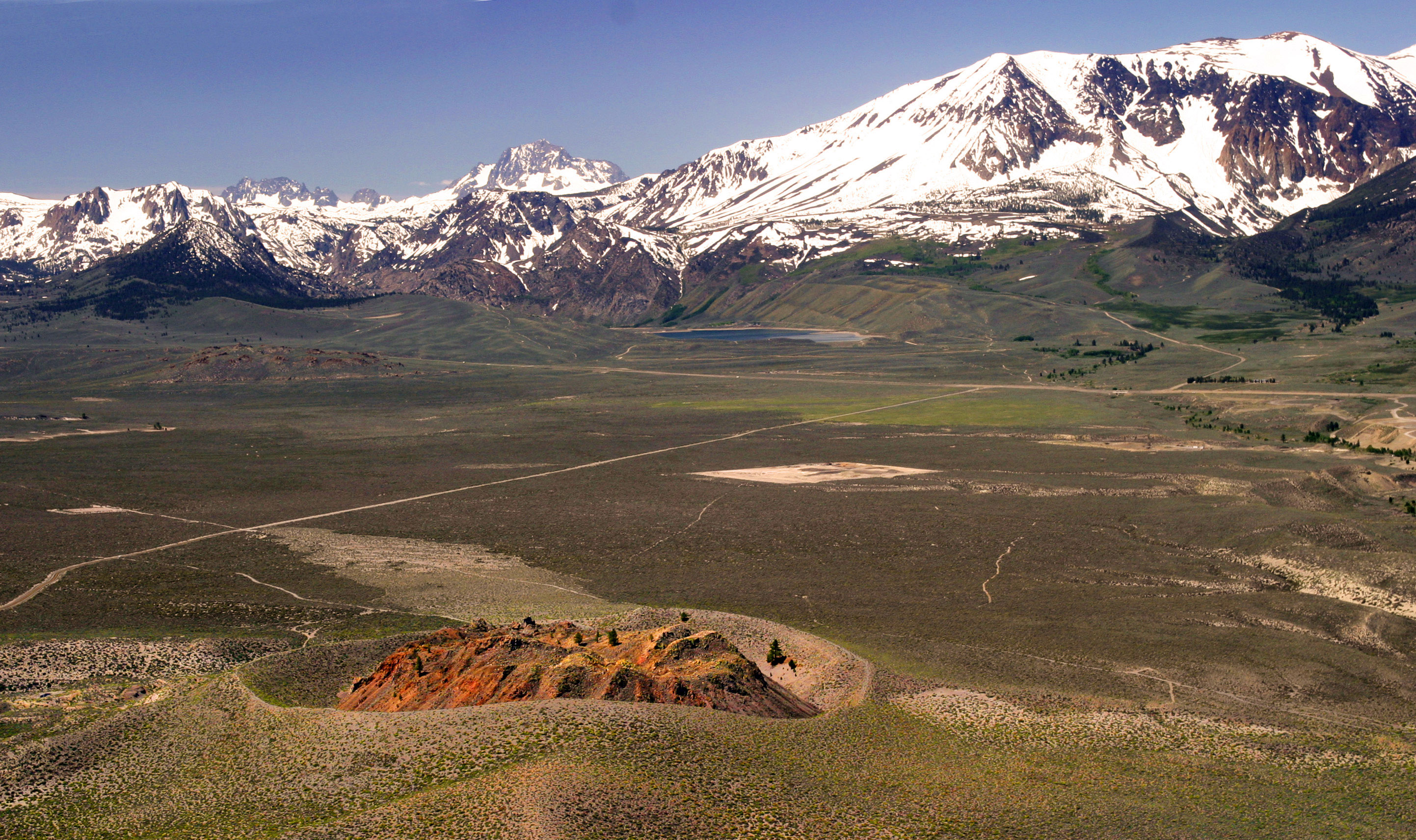 Panum Crater at the base of the Eastern Sierra, California. U.S. Route 395 in the background.